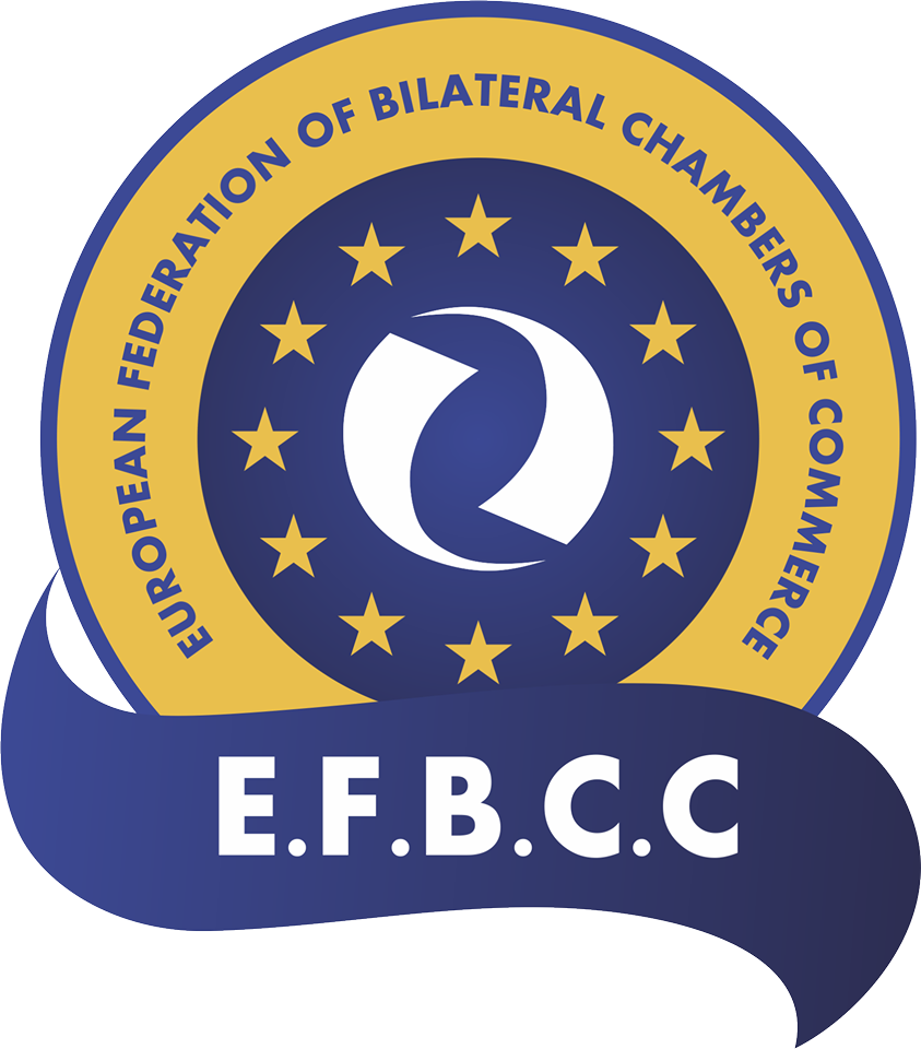 Logo for the European Federation of Bilateral Chambers of Commerce